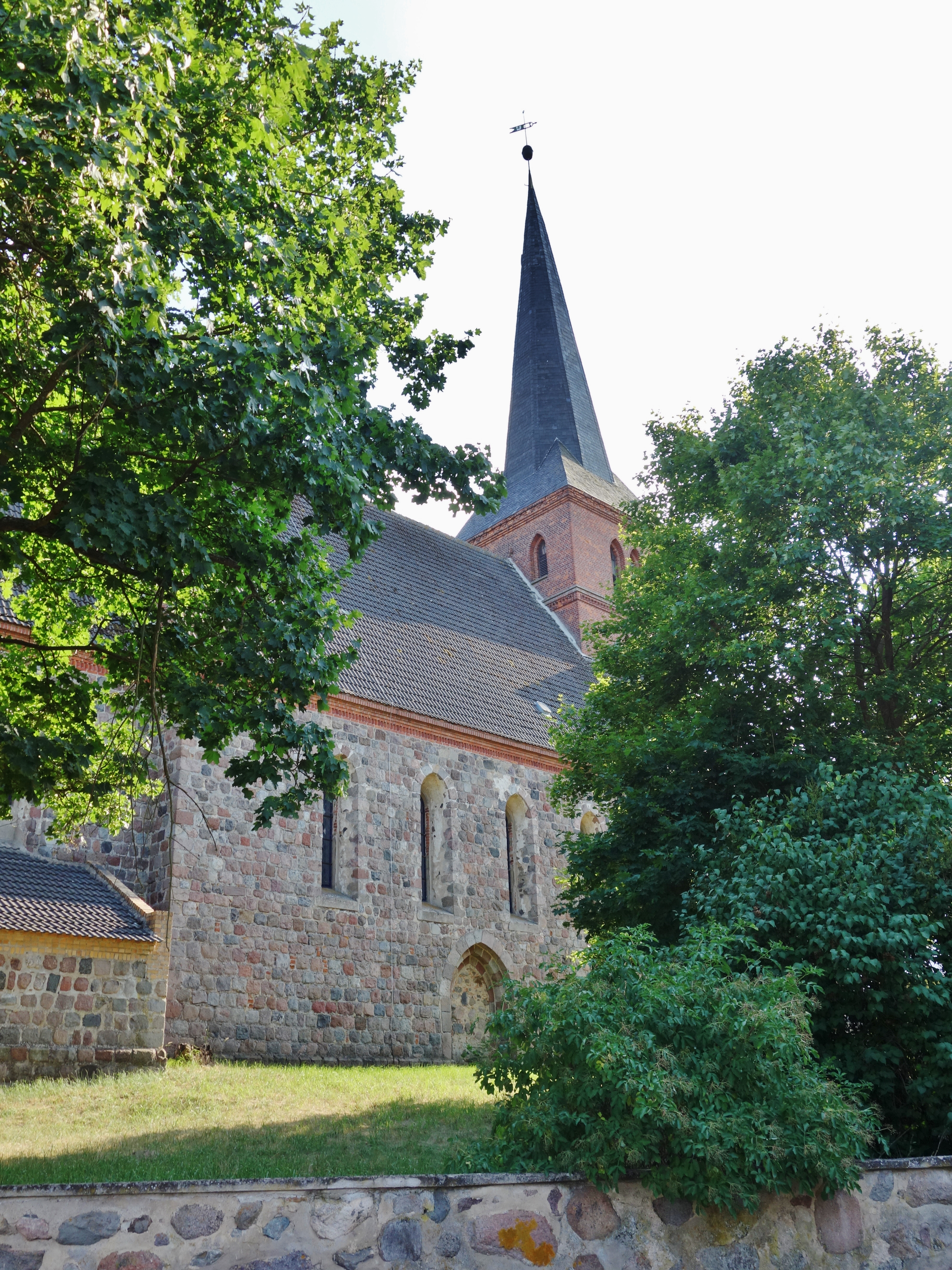 North-eastern view of the church in Jagow , Uckerland municipality, Uckermark district, Brandenburg state, Germany